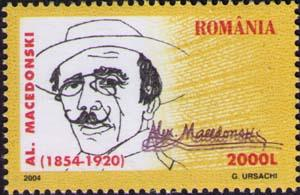 2004 Romanian Post, 2000 lei, multicoloured, representing Alexandru Macedonski; Series:Famous people anniversaries; Design: George Ursachi